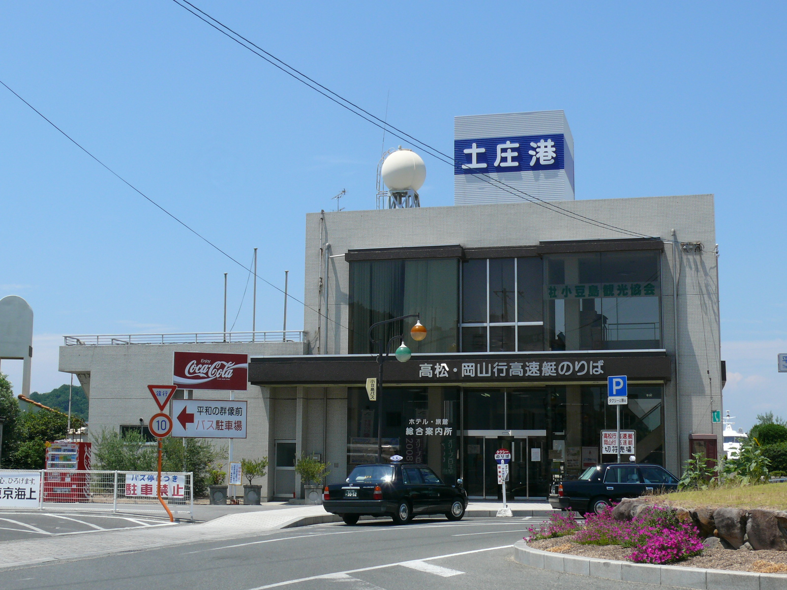 Tonosho port High-speed ship pier (Shodoshima island Kagawa Prefecture, Japan).